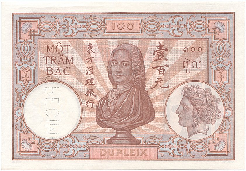 French Indochina 100 Piastres (from )